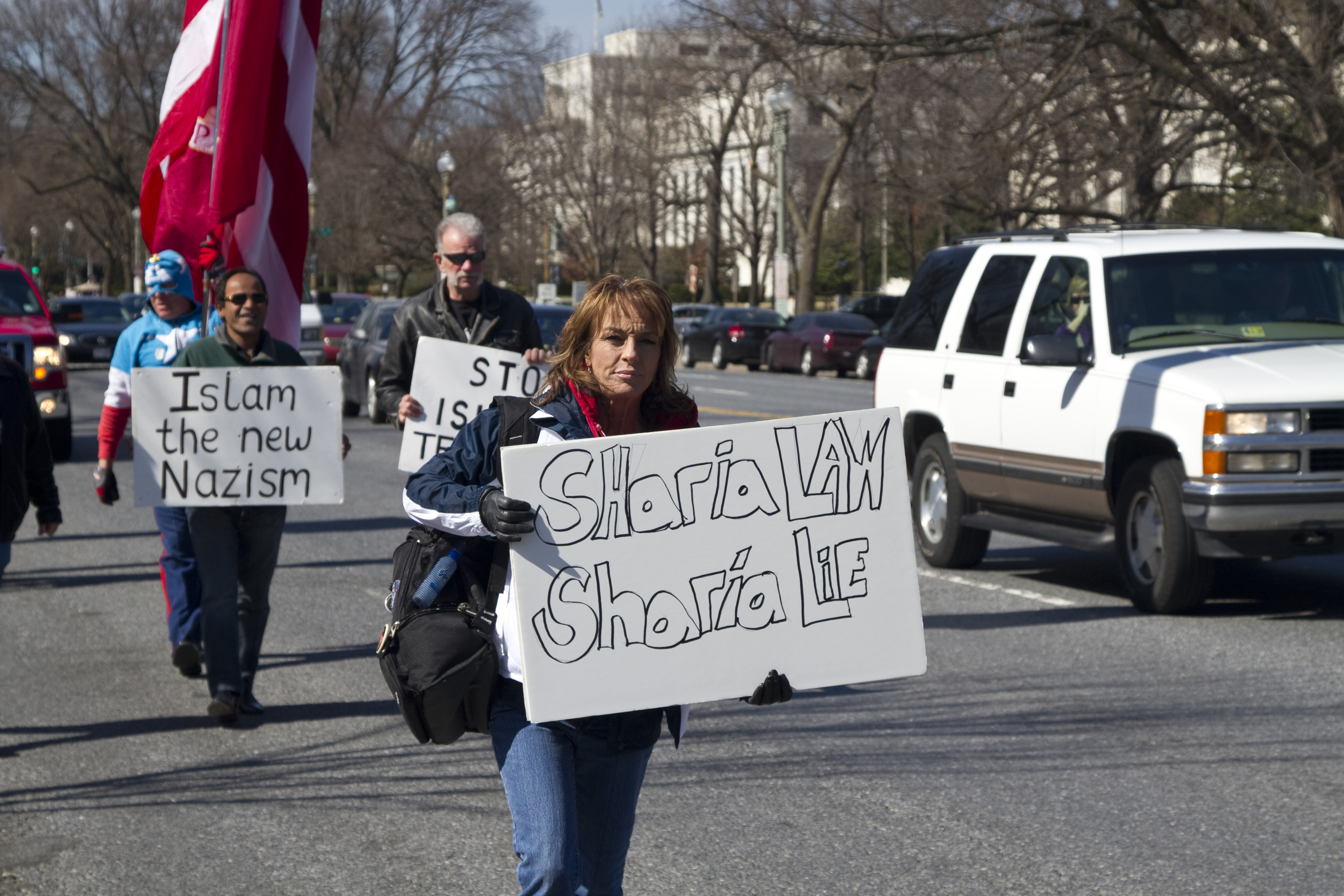 Pastor Terry Jones' March and Counter-protest in DC, March 3 2011.